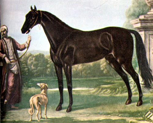 The thoroughbred horse Byerly Turk and a saluki dog.